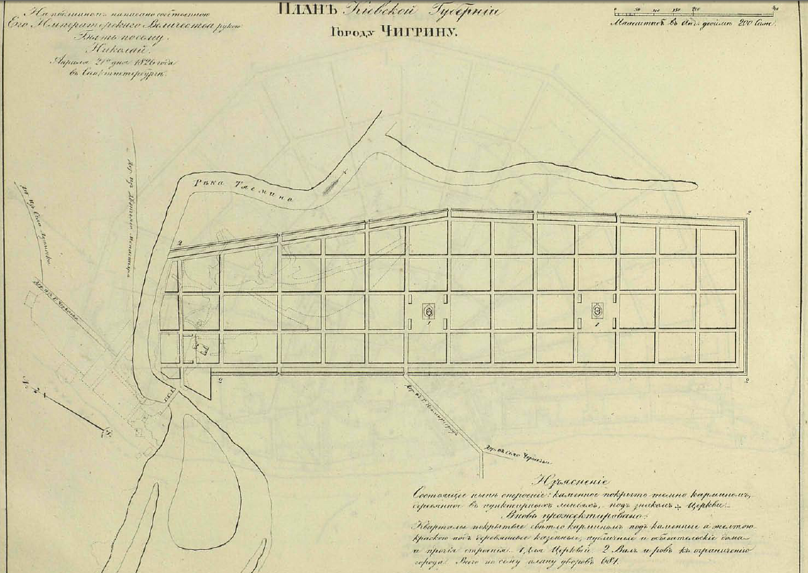 Plan of Chygyryn city. 1826